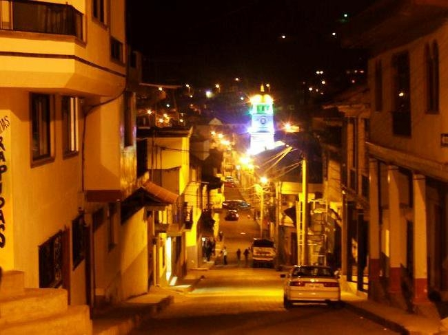 Arteria Principal de San José de Chimbo